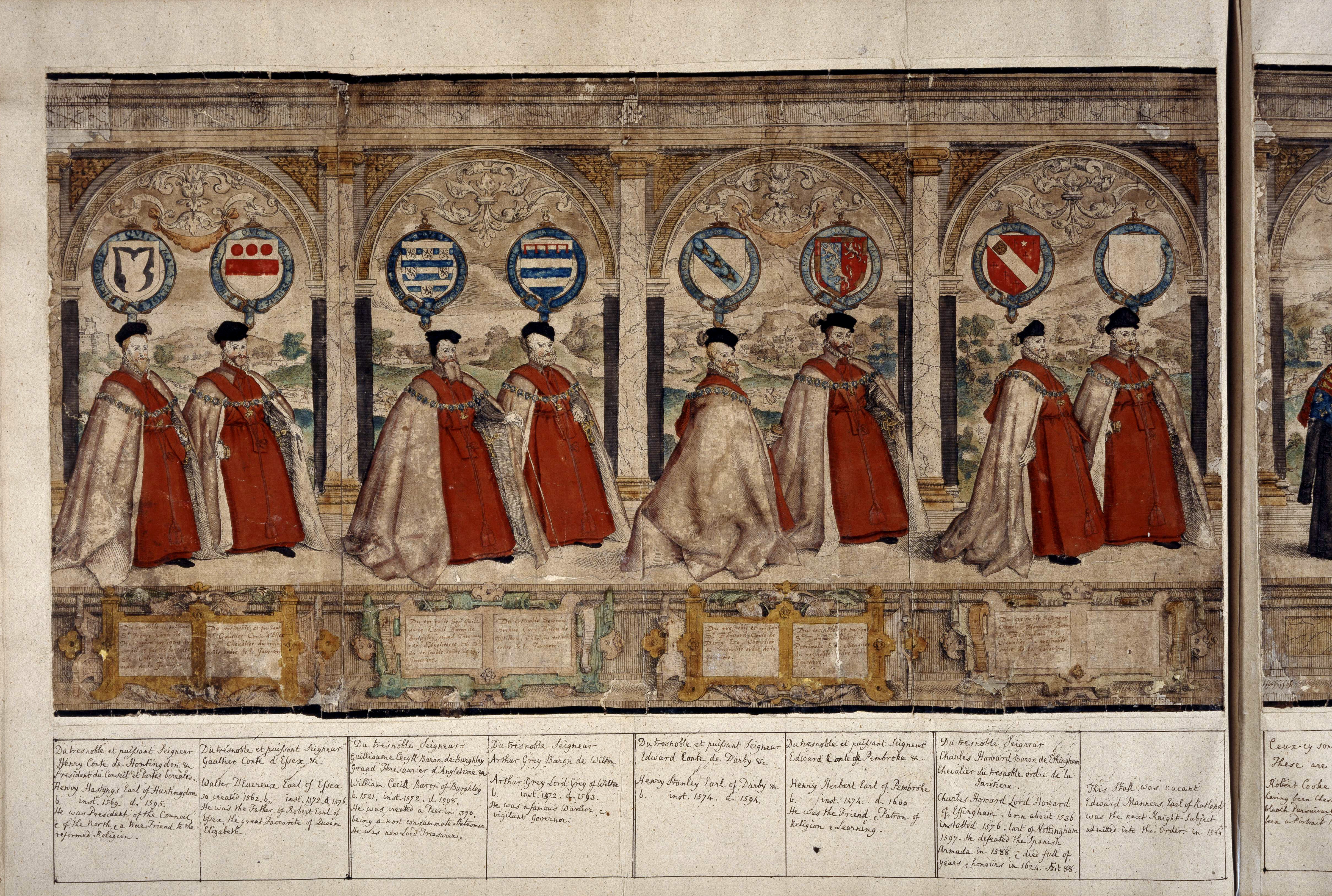 One of nine sheets, this sheet shows the start of the procession with the royal arms and praises of the Order, along with a verger and two Alms Knights. The British Museum series is only one of three surviving copies, none complete. The other two are in the Office of the Garter King of Arms and in the collection of the Bodleian Library at Oxford.